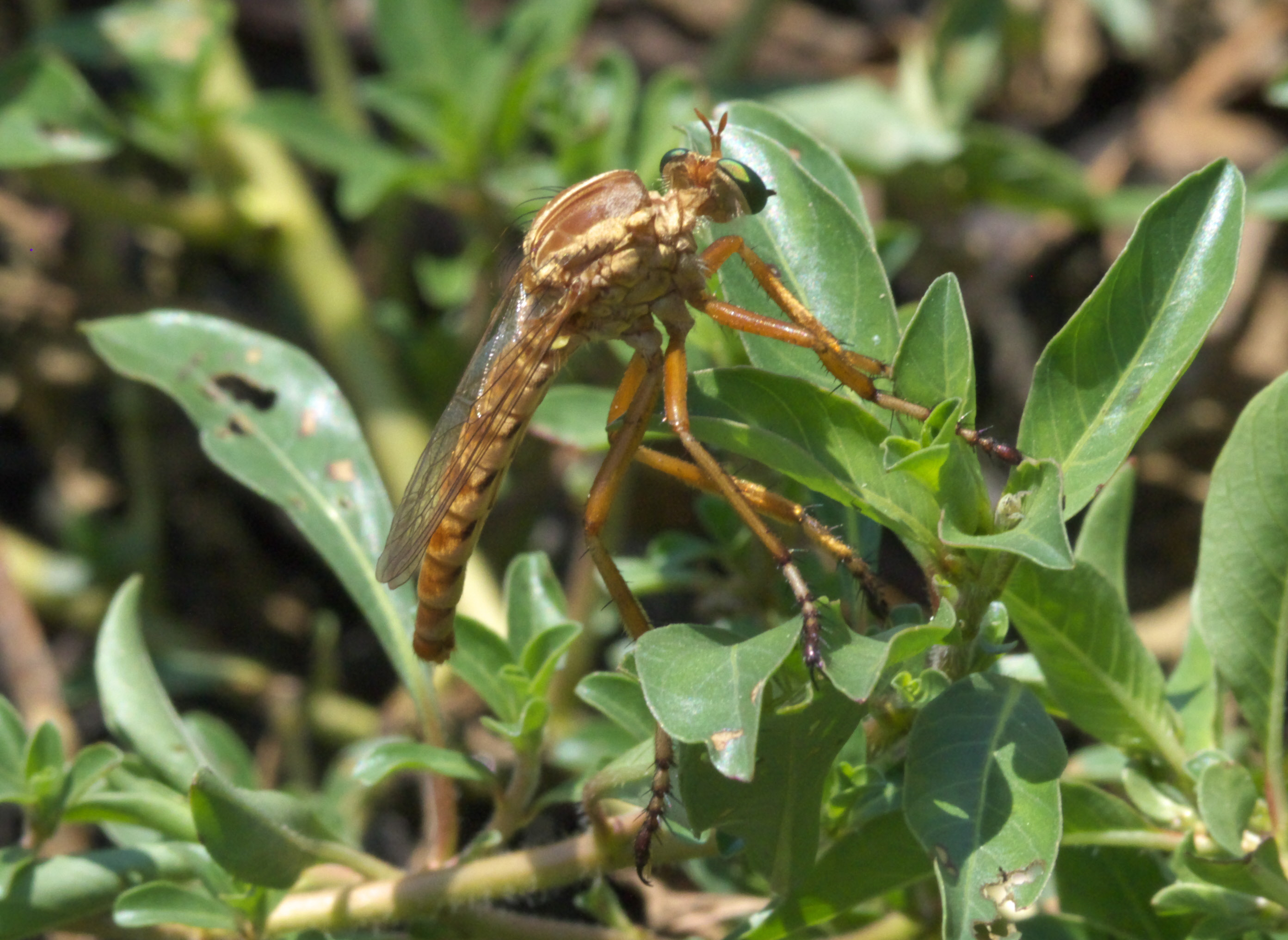 Diogmites angustipennis, Genus: Hanging-thieves, ID Confidence: 80